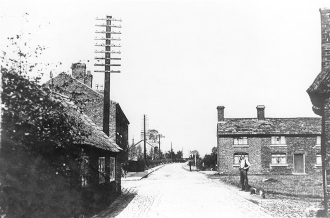 Junction of Chester Road, Dean Lane (right), and Jacksons Lane (left), in Norbury Moor, now part of Hazel Grove.